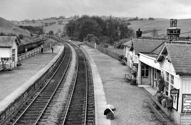 Bolton Abbey Station. View NW, towards Skipton; ex-Midland Leeds - Ilkley - Skipton line, closed 22/3/65. Bolton Abbey is now the eastern terminus of the Embsay & Bolton Abbey Steam Railway, restored in 1997.